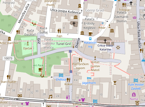 A map of the southern part of Gornji Grad (Zagreb, Croatia), displaying the Grič Tunnel and its branches. This map may be incomplete, and may contain errors. Don't rely solely on it for navigation.